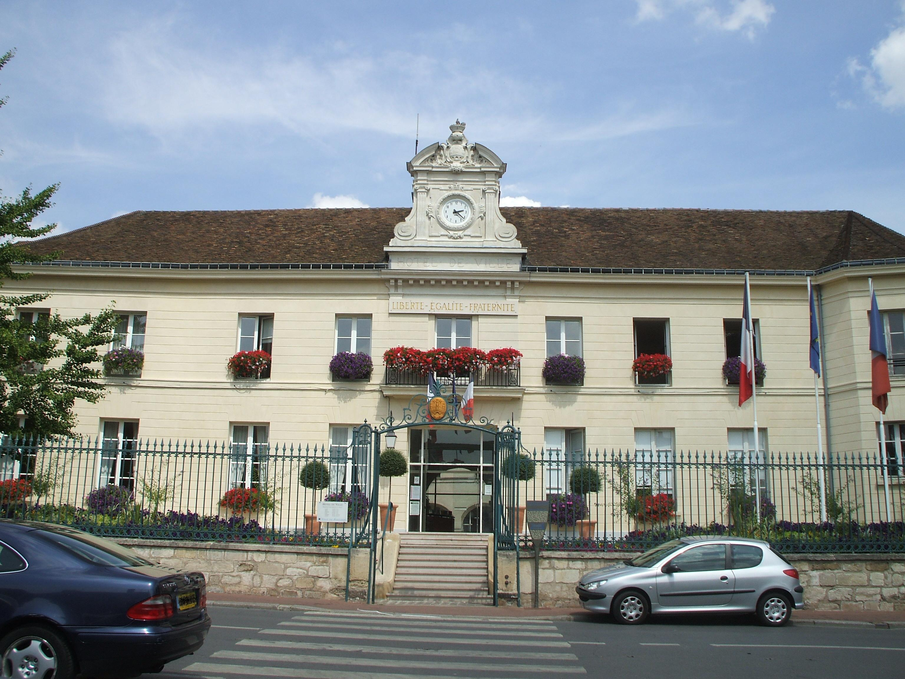 Town halls of Pontoise